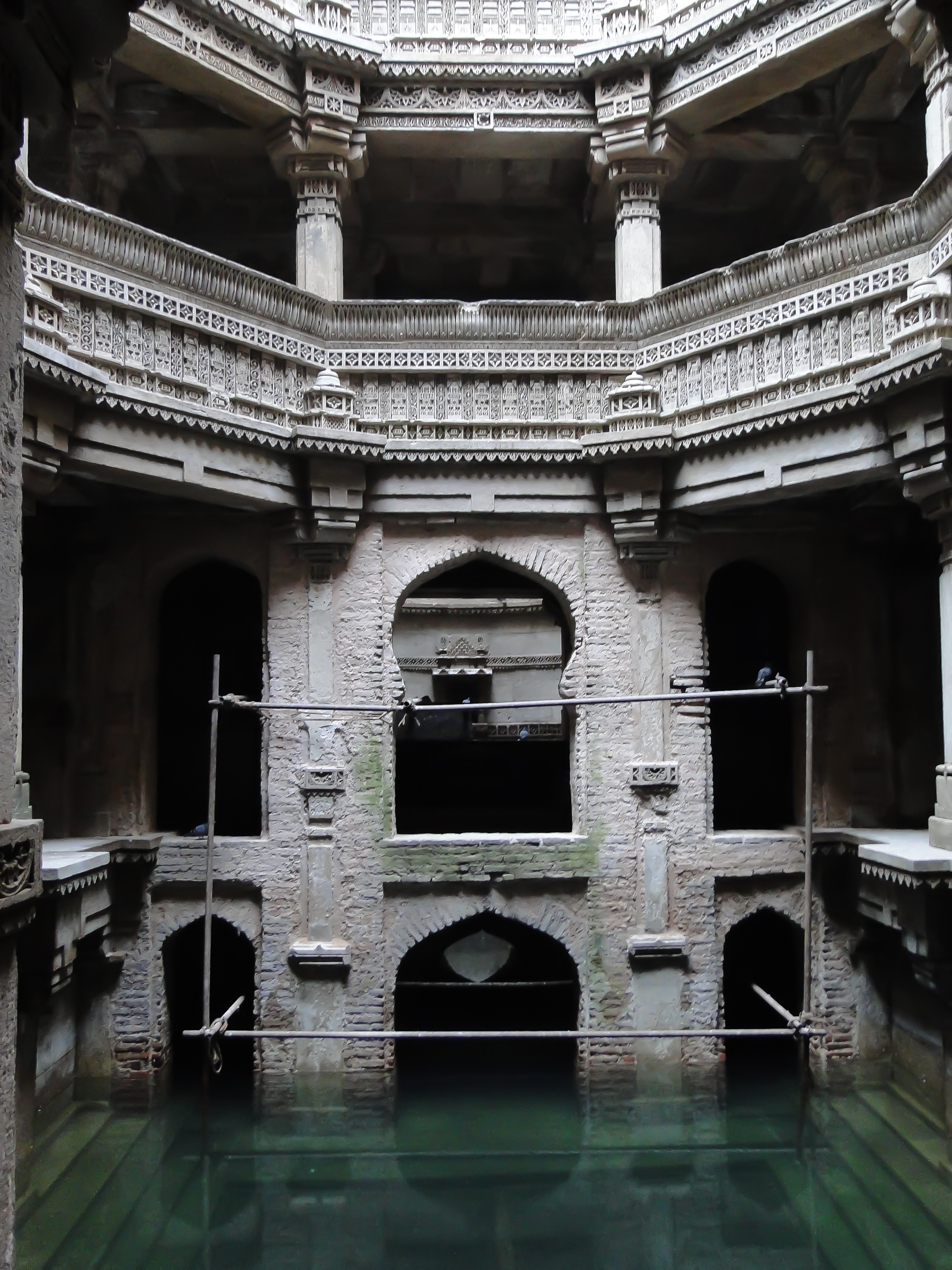 The Ruda Vav in Adalaj, India